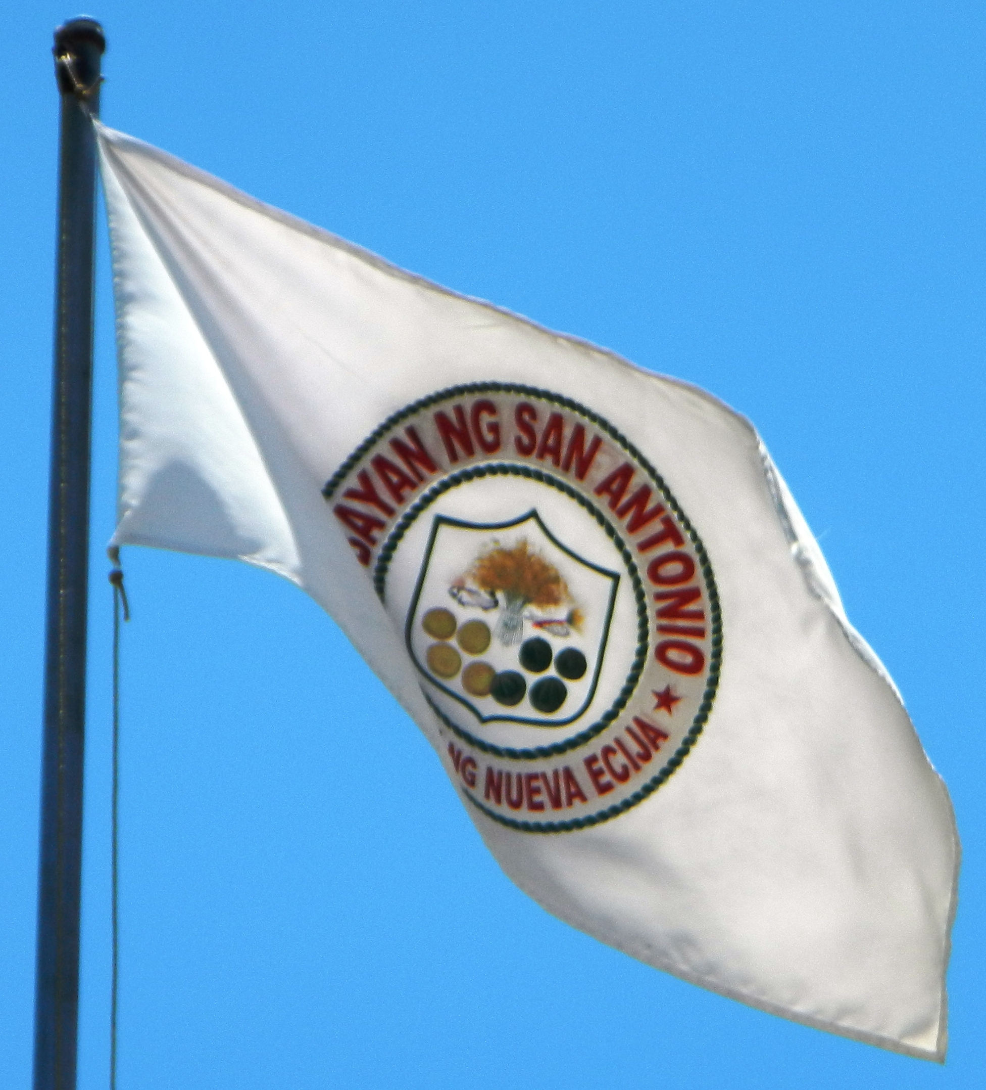 Official Logs, sealand flag seal of San Antonio, Nueva Ecija